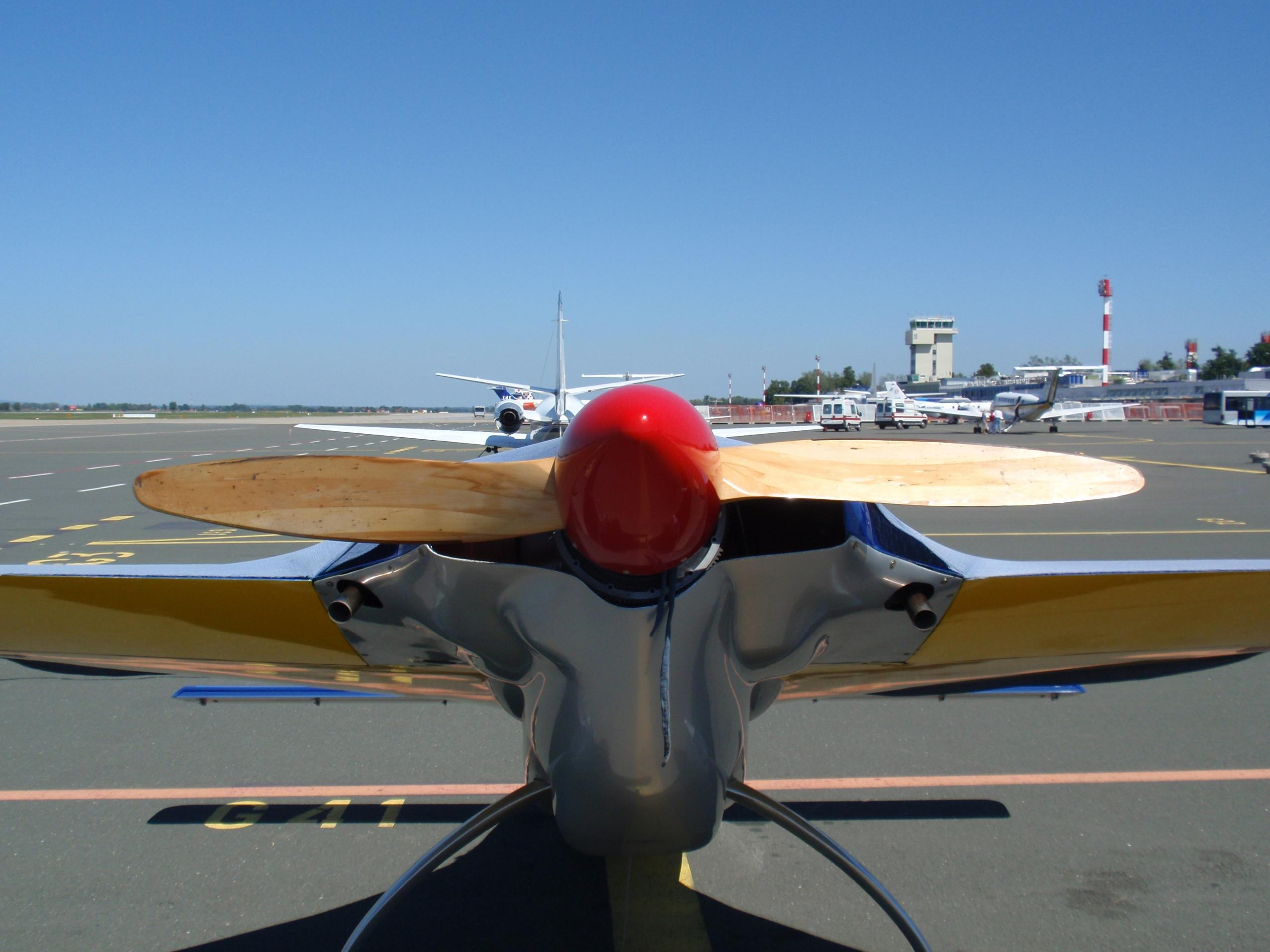 wooden propeller on Rutan LongEZ